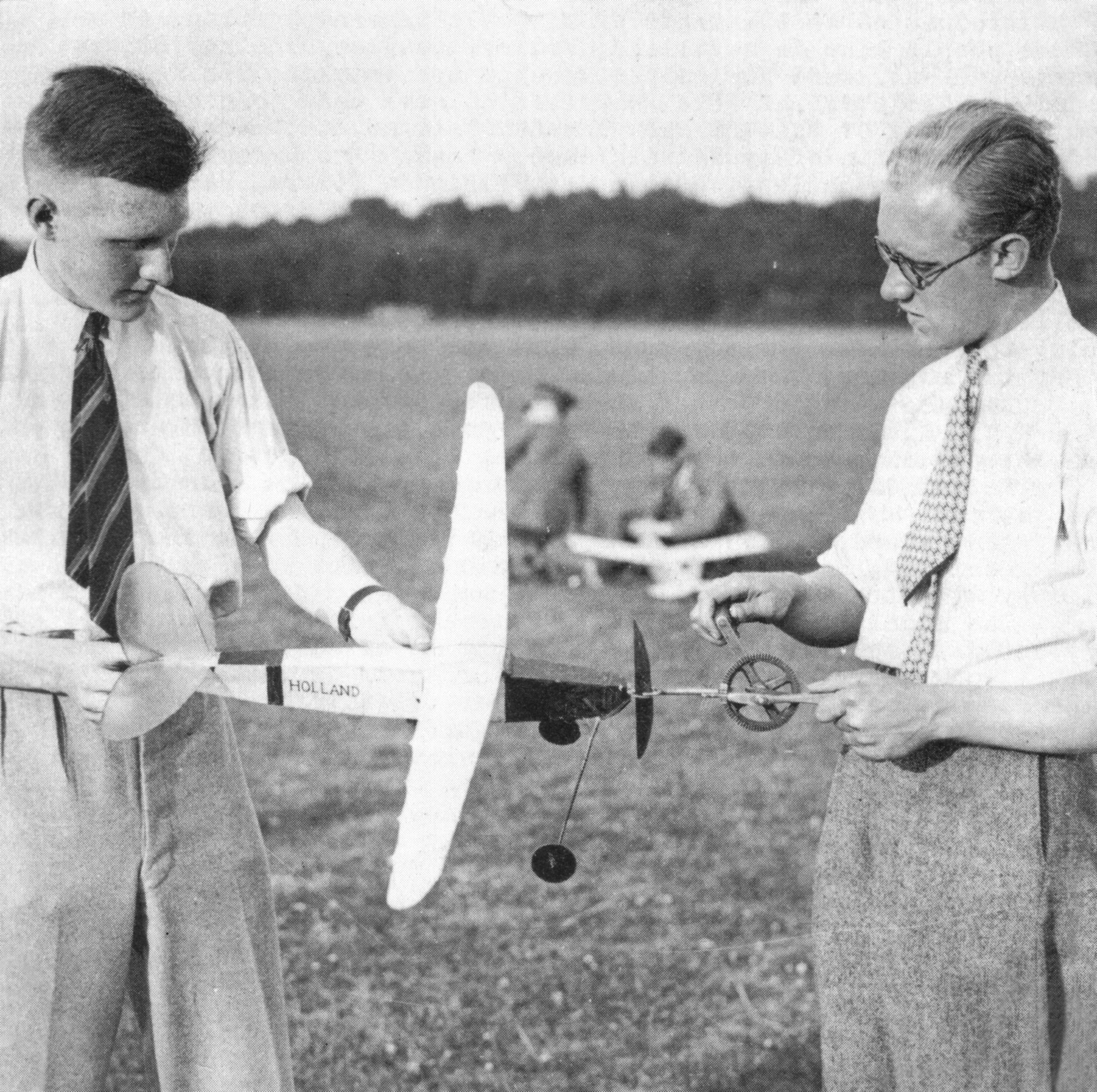 James Pelly-Fry (left) holds model Wapati II while Juste van Hattum winds, 1929